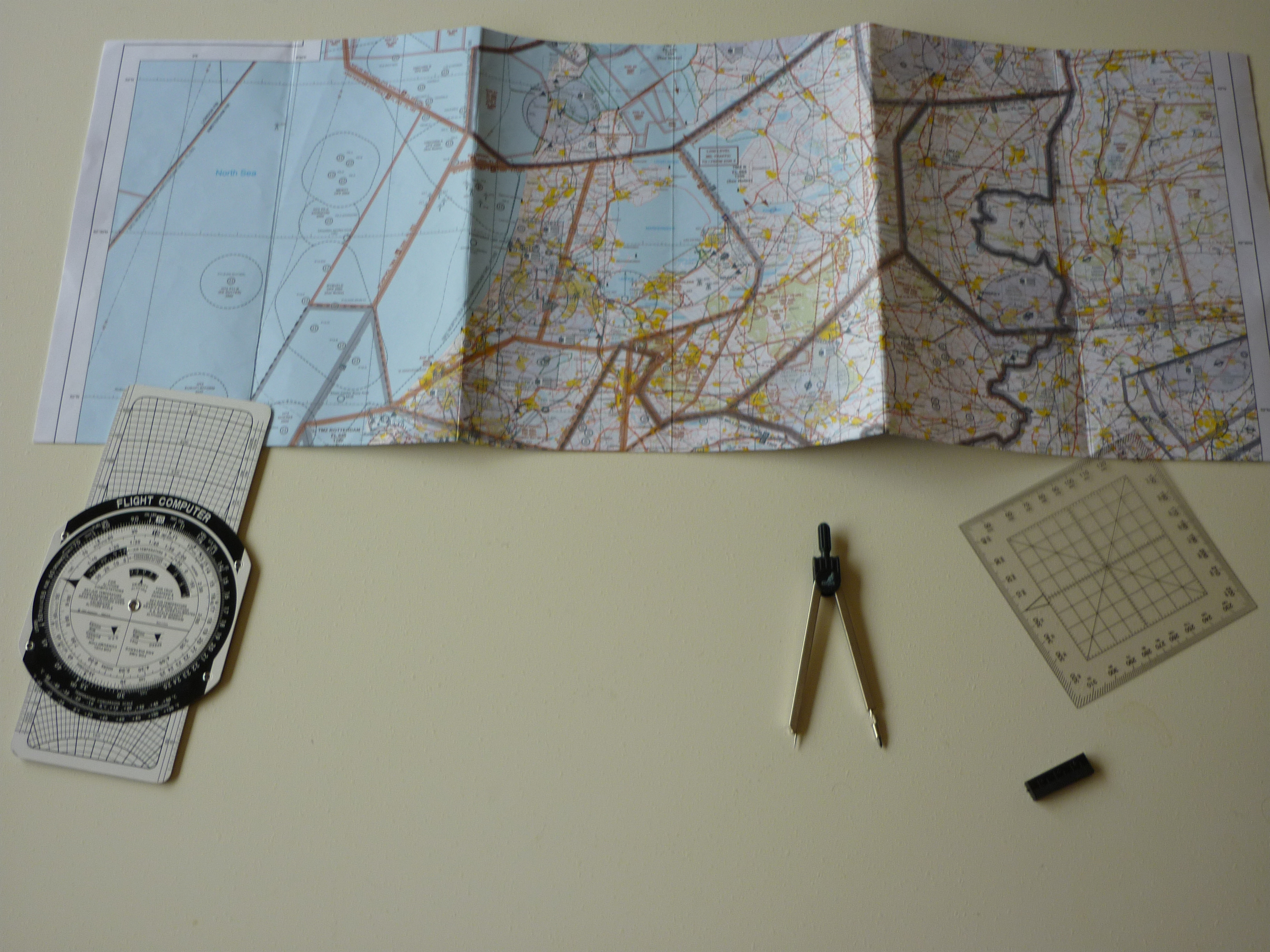 Navigation. Depicted are a fragment of an airspace map of the Netherlands, a Jeppesen flight computer, a protractor and a pair of compasses.